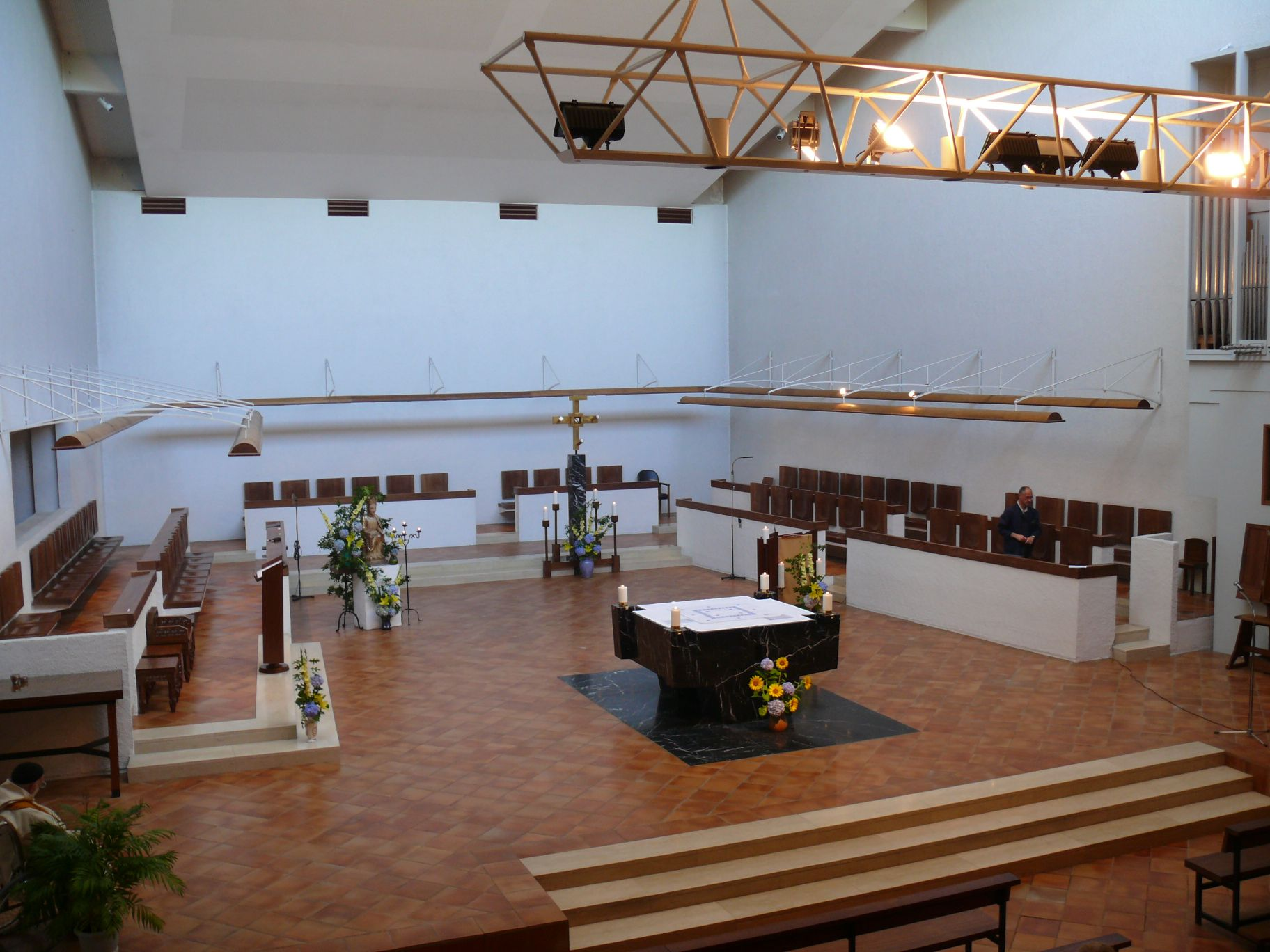 The abbaye Notre-Dame of Belloc, in Basque Country (France)